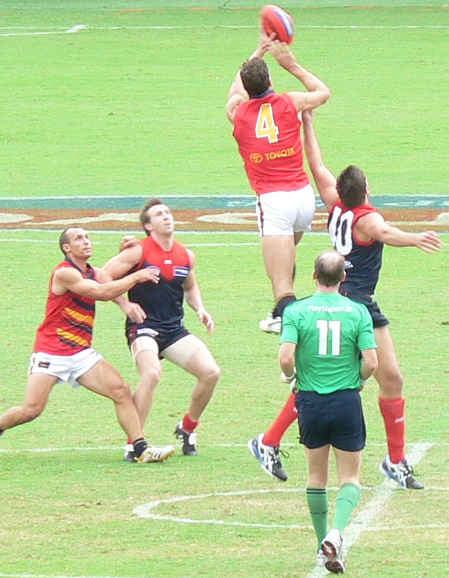 Aussie Rules footballers contesting a centre bounce